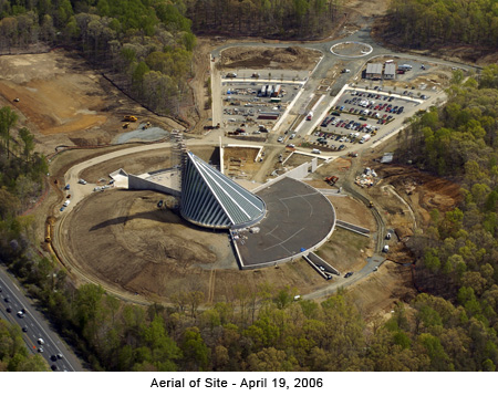 Construction of the National Museum of the Marine Corps. Work began in April 2004, this aerial photo (courtesy of the USMC), was taken in April 2006. The Museum is scheduled to open in November 2006. Photo from